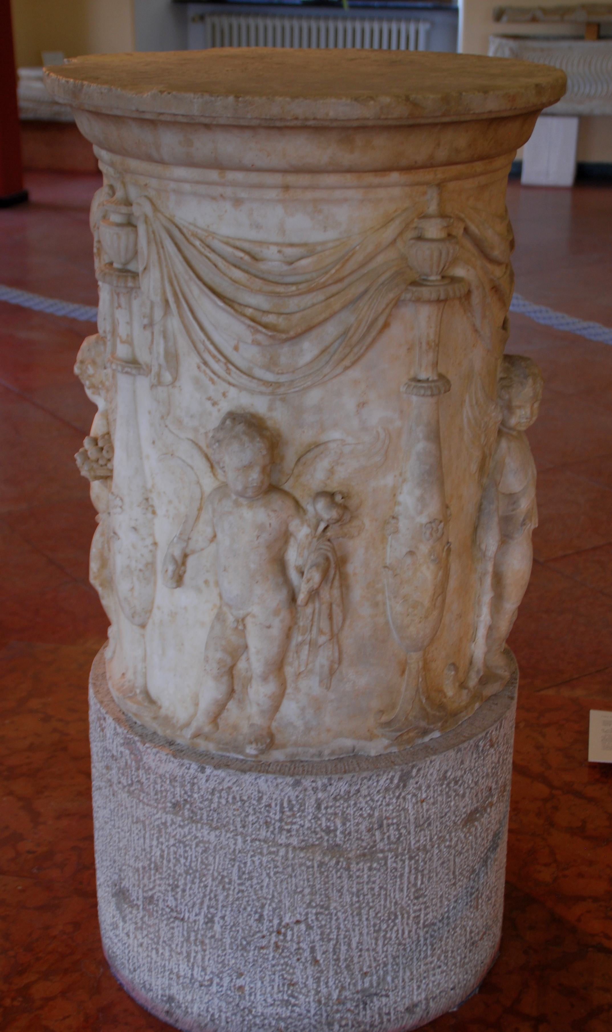 "Würzburger Vierjahreszeitenaltar", roman altar, faound 1886 in the Horti Sallustiani in Rome; 4 Puttos representing the four seasons; dated ca. 40 AD; since 1966 in the Martin von Wagner Museum in Würzburg (Inventarnumber H 5056); High 73 cm, Diameter 56,4 cm